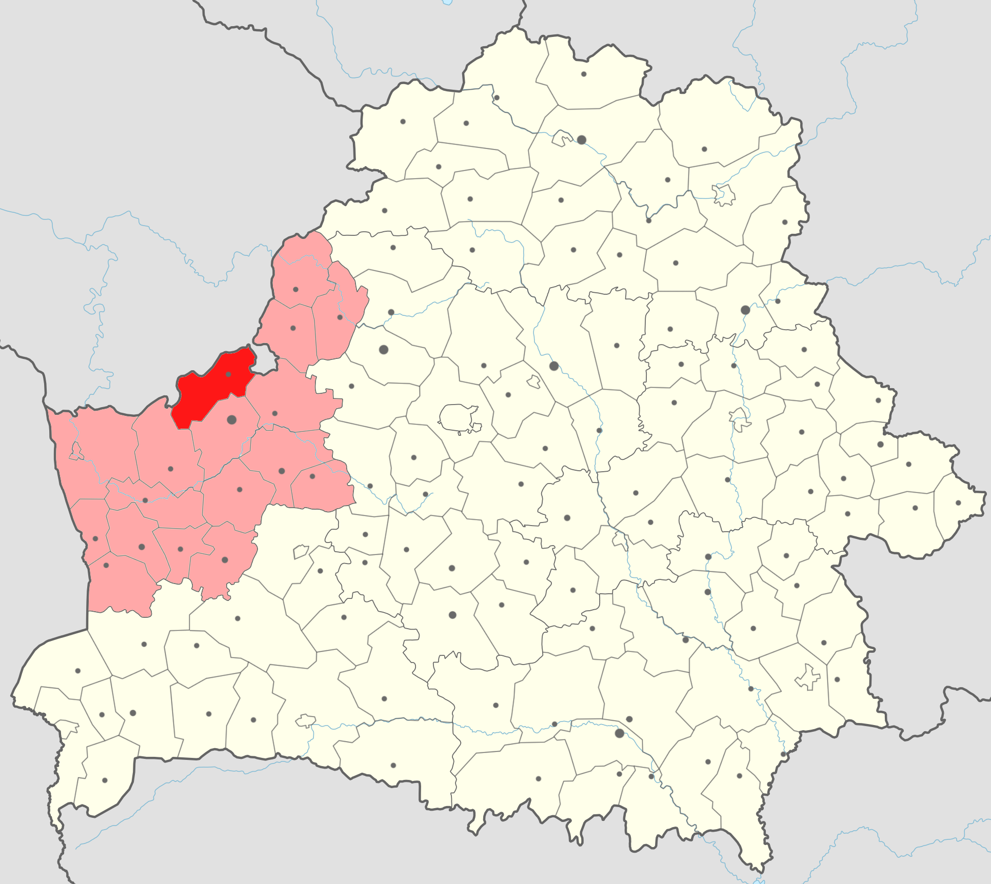 Map of Voranaŭski rayon (in red) with Hrodna voblast' (in light red) on the map of Belarus.